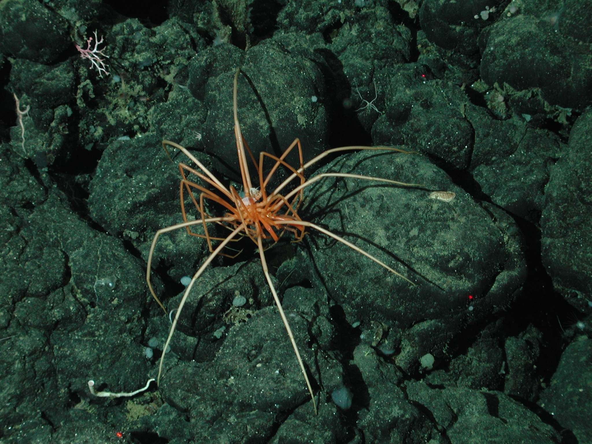 Sea spiders (pycnogonids) were found on the slope and base habitats of Davidson Seamount. Chiton attached to rock at right of image. 1570 meters water depth. California, Davidson Seamount.